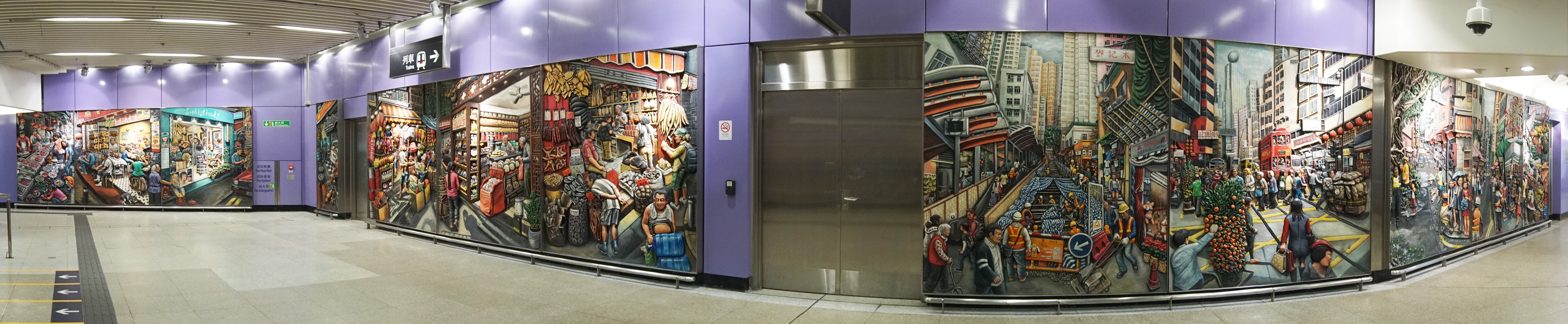 Painted Bas Reliefs in Sai Ying Pun Station, Hong Kong.